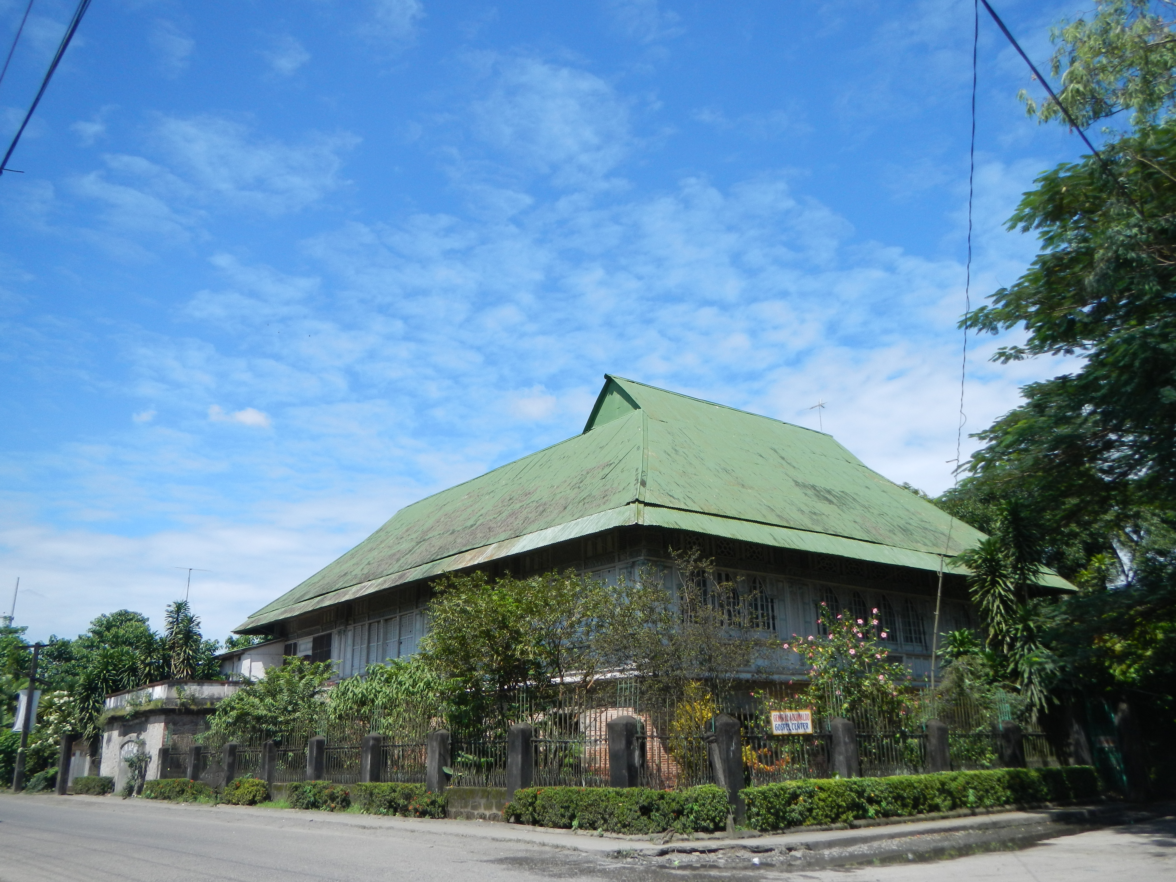 Crispulo Sideco House[1] San Isidro, Nueva Ecija The Sideco house was built in the 19th century by Crispulo Sideco. It typifies the houses of the Floral period in the Philippine colonial architecture, where ogee arches, filigreed wooden panels, grilles wrought in curlicues and floral and foliate designs abound in the house as basic structural elements or as ornaments. It had been the seat of General Emilio Aguinaldo's First Philippine Republic when he established it as his headquarters in San Isidro during the last part of his odyssey from the American forces. San Isidro, Nueva Ecija[2]